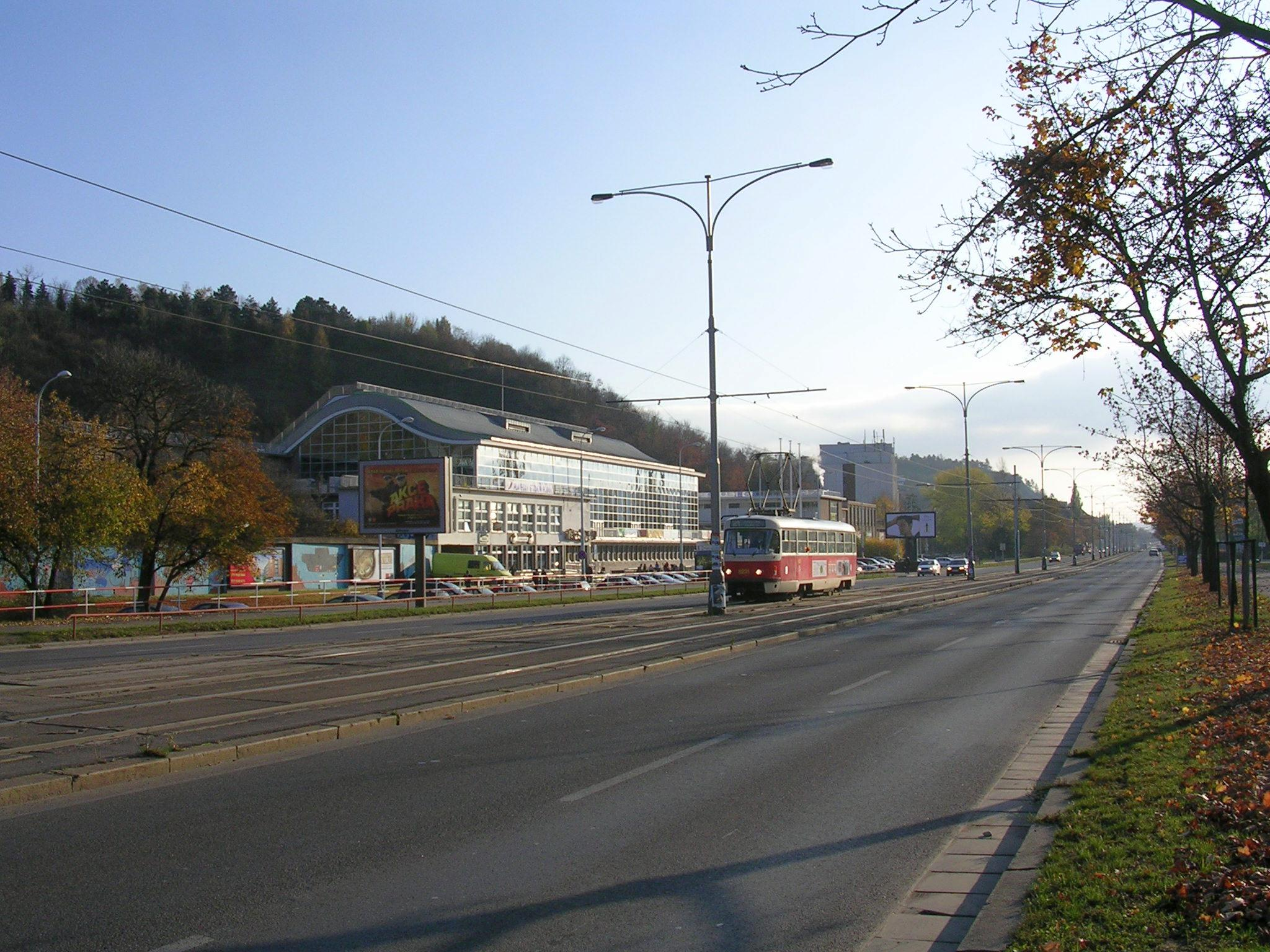 Podolí, Prague.